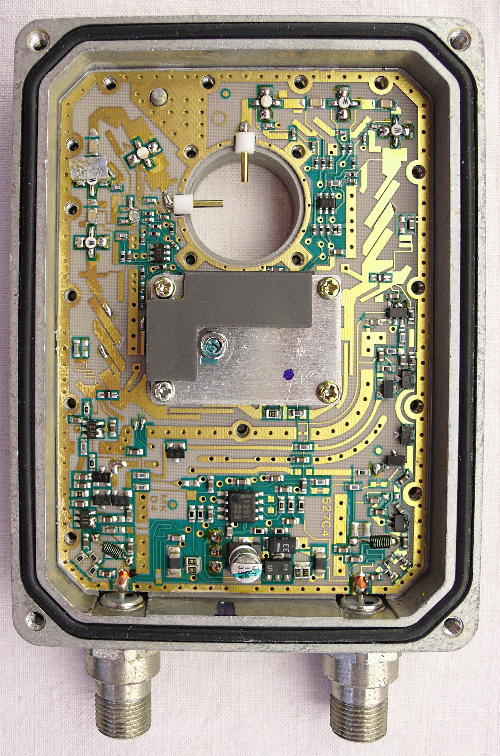 Low noise block downconverter (LNB) from a satellite television dish, disassmbled. This is mounted at the focus of the satellite dish and converts the microwave ku band signal from the satellite to a lower intermediate frequency which is sent down the coaxial cable into the house to the set-top box at the user's TV. A feed horn collects the microwaves from the dish into a circular waveguide which passes through the hole in the circuit board. The two metal pins visible at the edge of the hole act as antennas to receive the two orthogonal circularly polarized microwave signals. On the circuit board a local oscillator creates a signal which is mixed with the microwave signal, creating the intermediate frequencies, which ore output to the coaxial cable through the connectors at bottom.